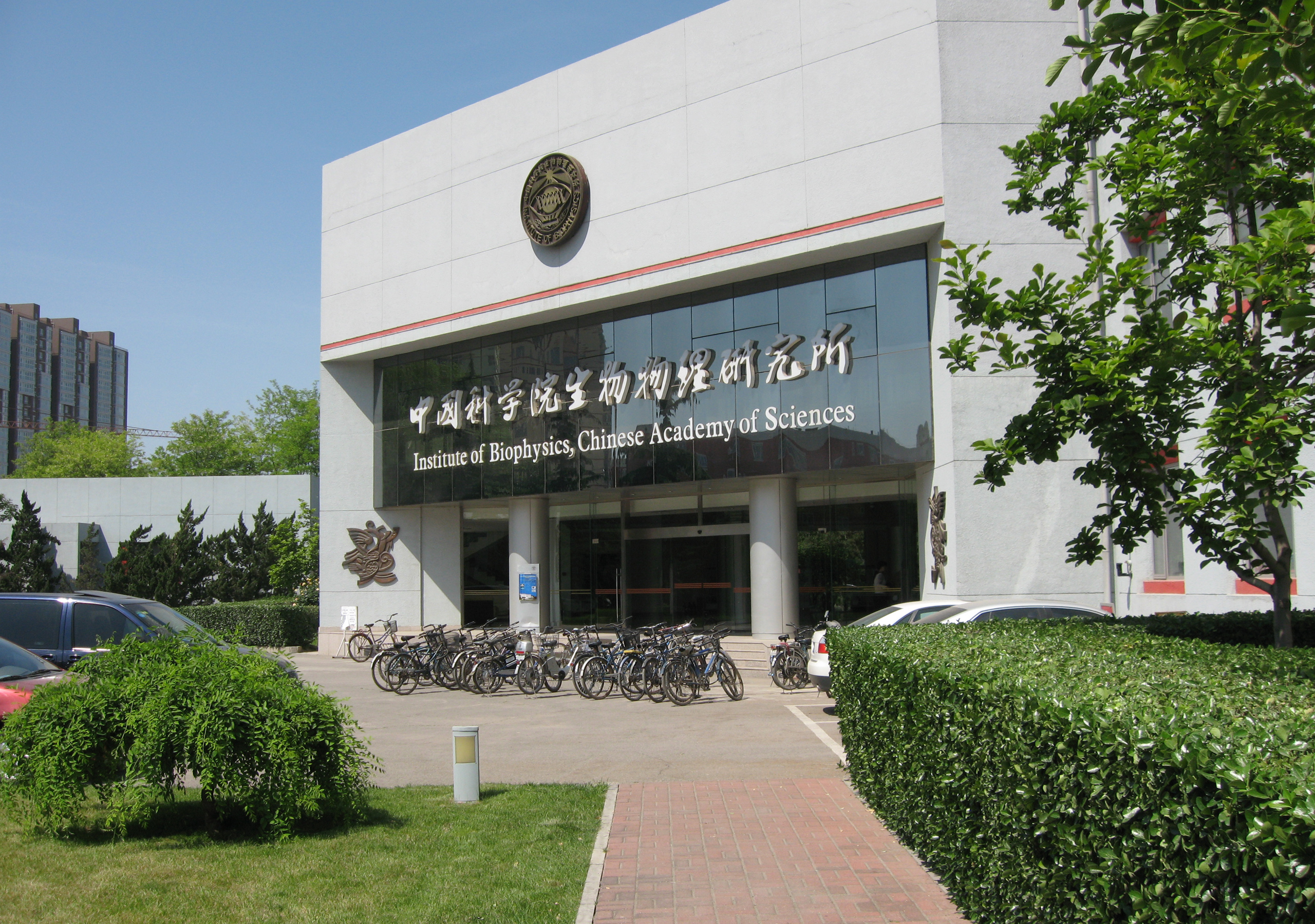 Entrance to the Institute of Biophysics [1] (Chinese Academy of Sciences) building in Beijing, with bicycles.